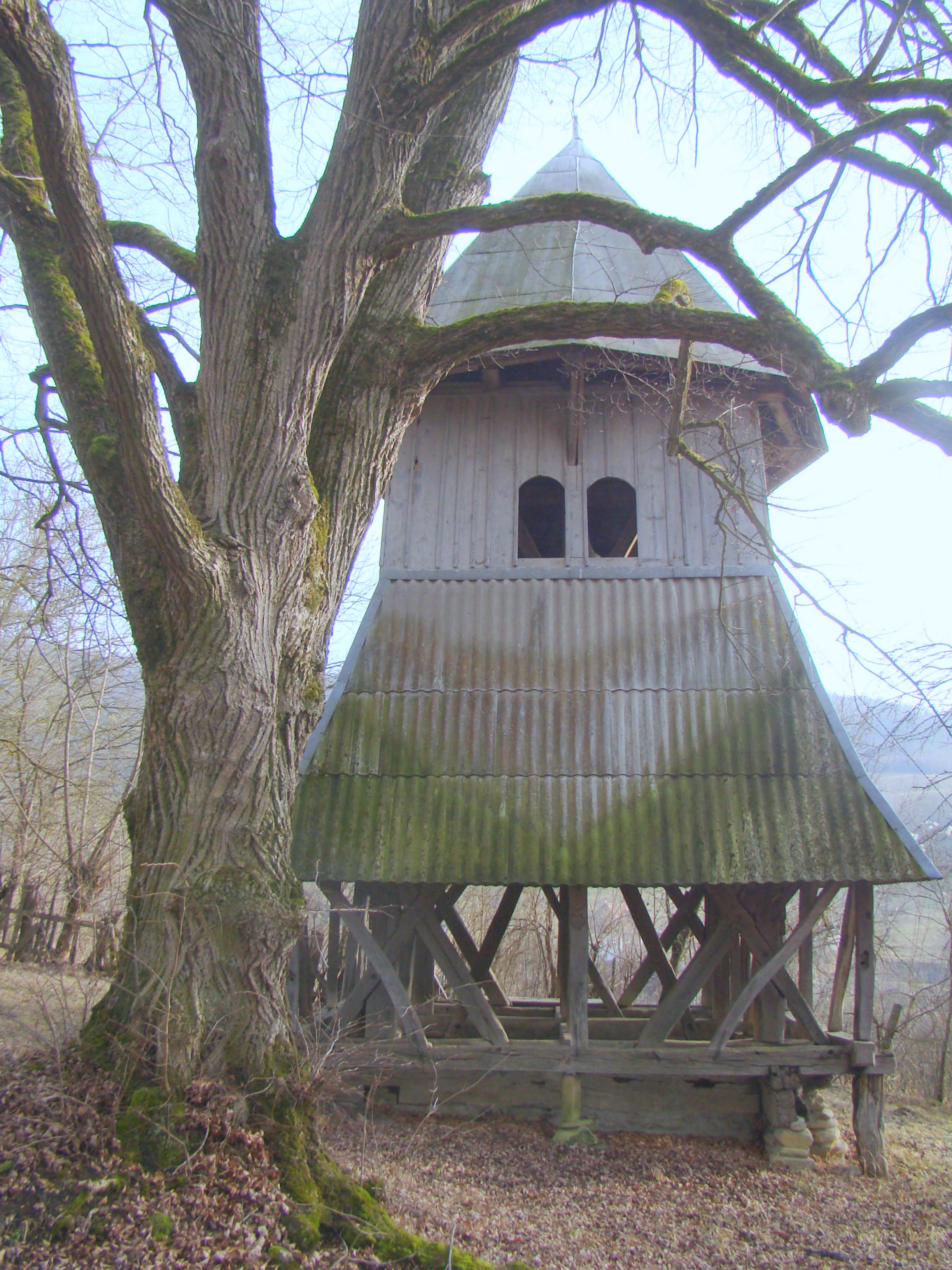 Reformed church in Sânsimion, Mureș County, Romania